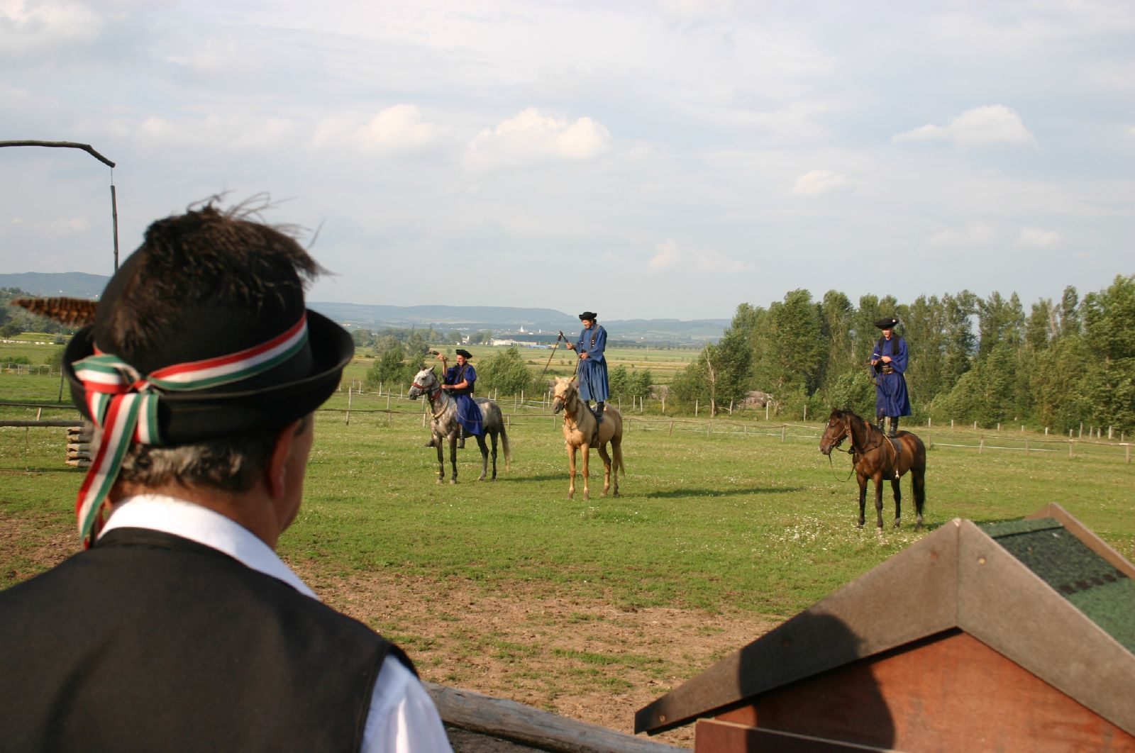 Puszta show in Salföld, Hungary